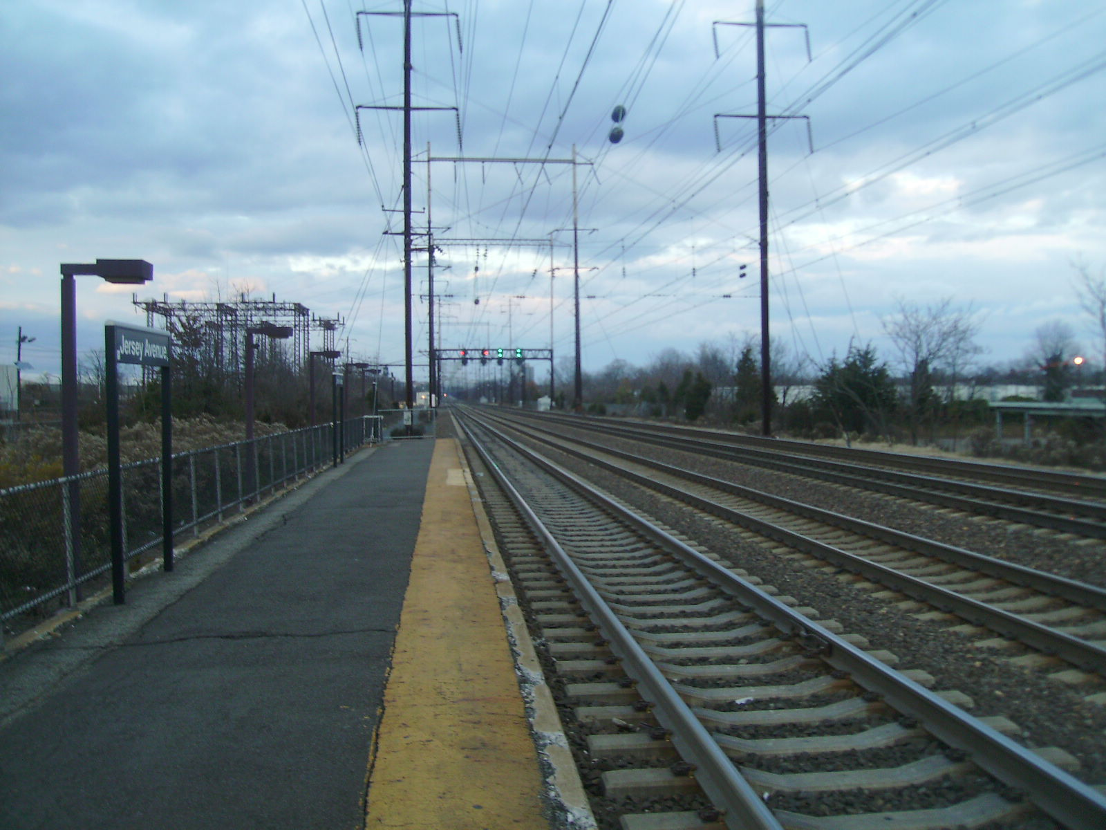 Sunset looms over the Trenton-bound tracks at the Jersey Avenue New Jersey Transit station in New Brunswick, New Jersey. This view faces northward to Newark.